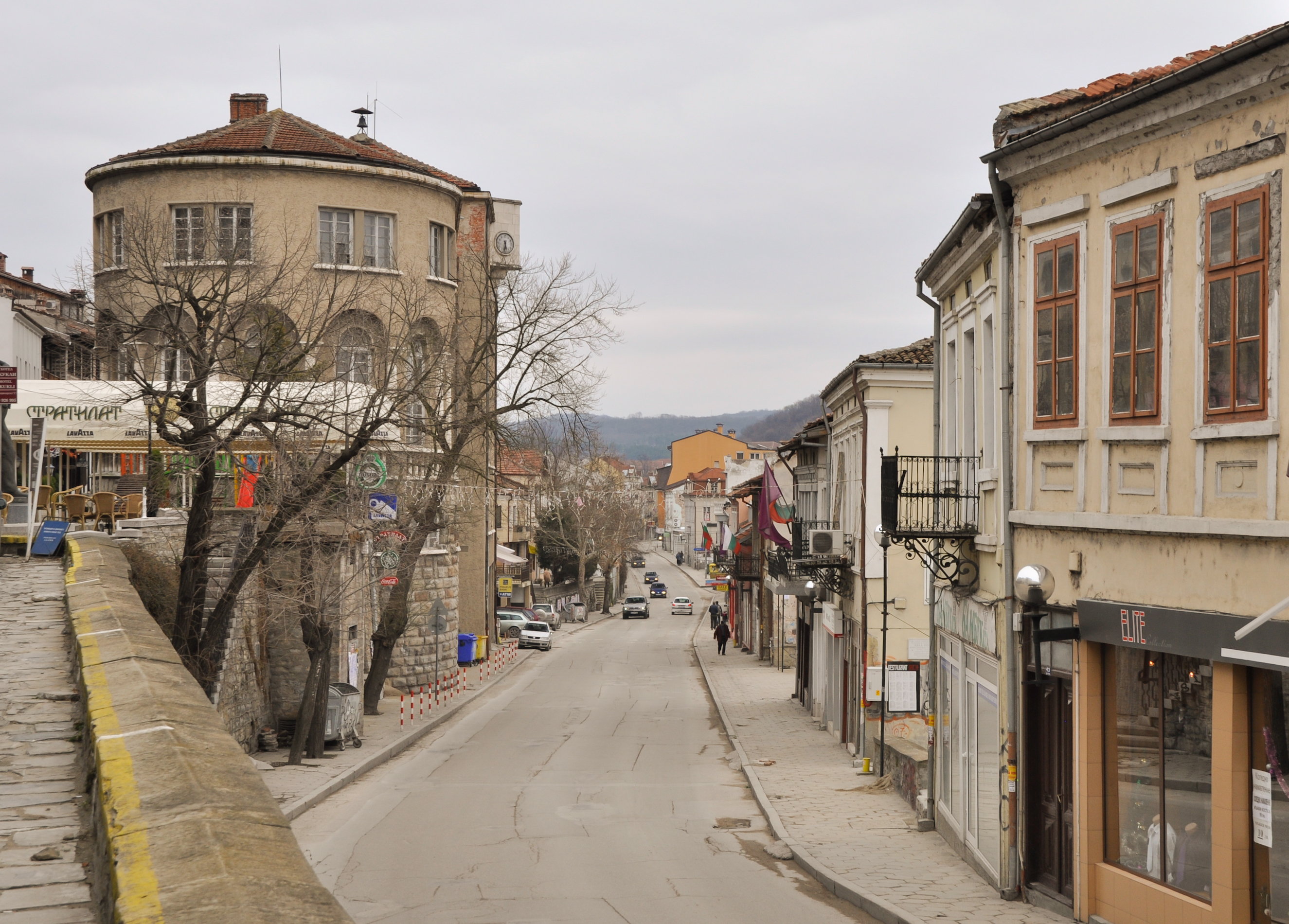 Stefan Stambolov street in the city of Veliko Tarnovo, Bulgaria. On the left is seen the beginning of the famous old trade street called „Samovodska Charshiya“.